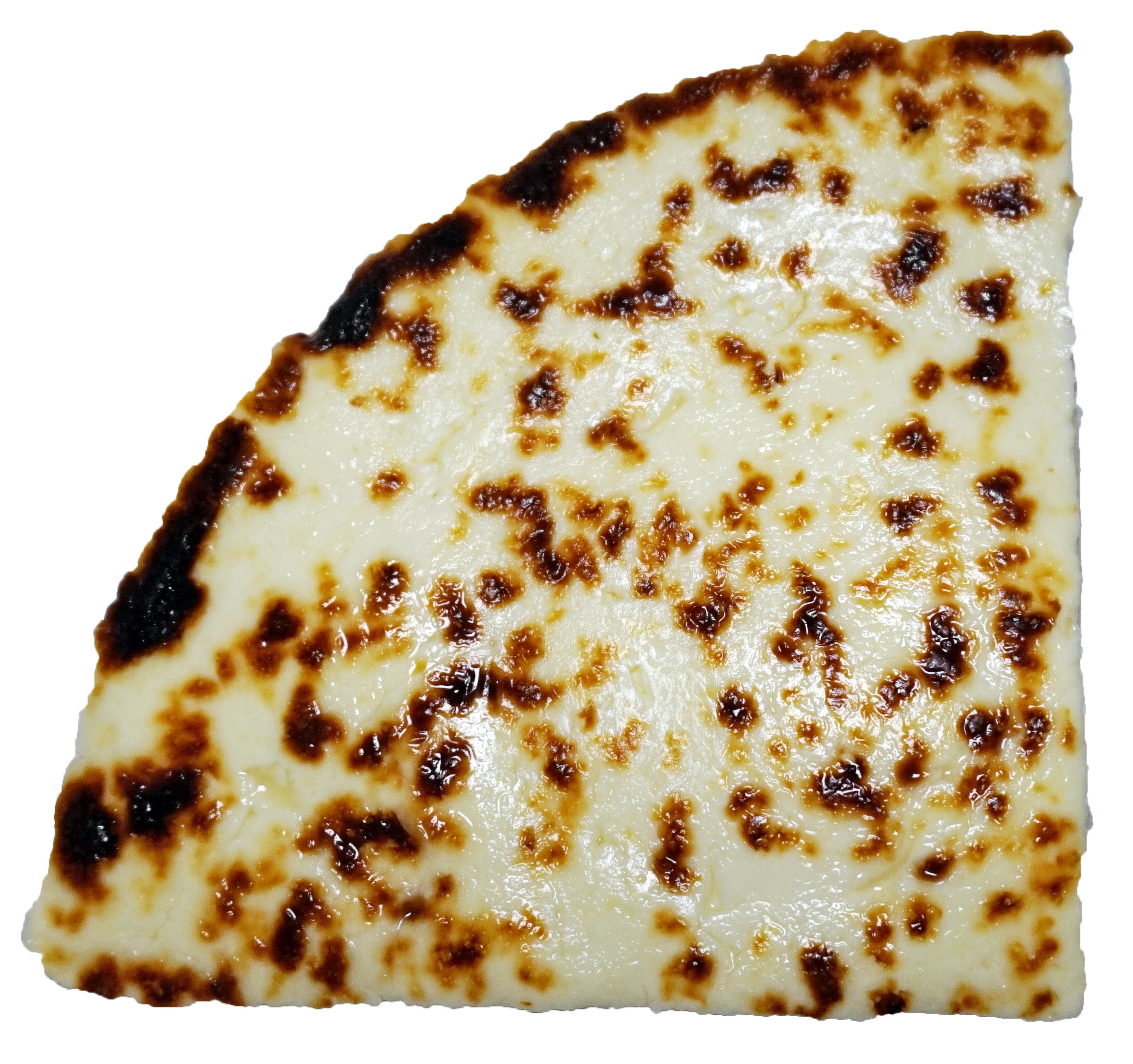 Leipäjuusto or "bread cheese" by Riitan Herkku. Weight about 180 grams.